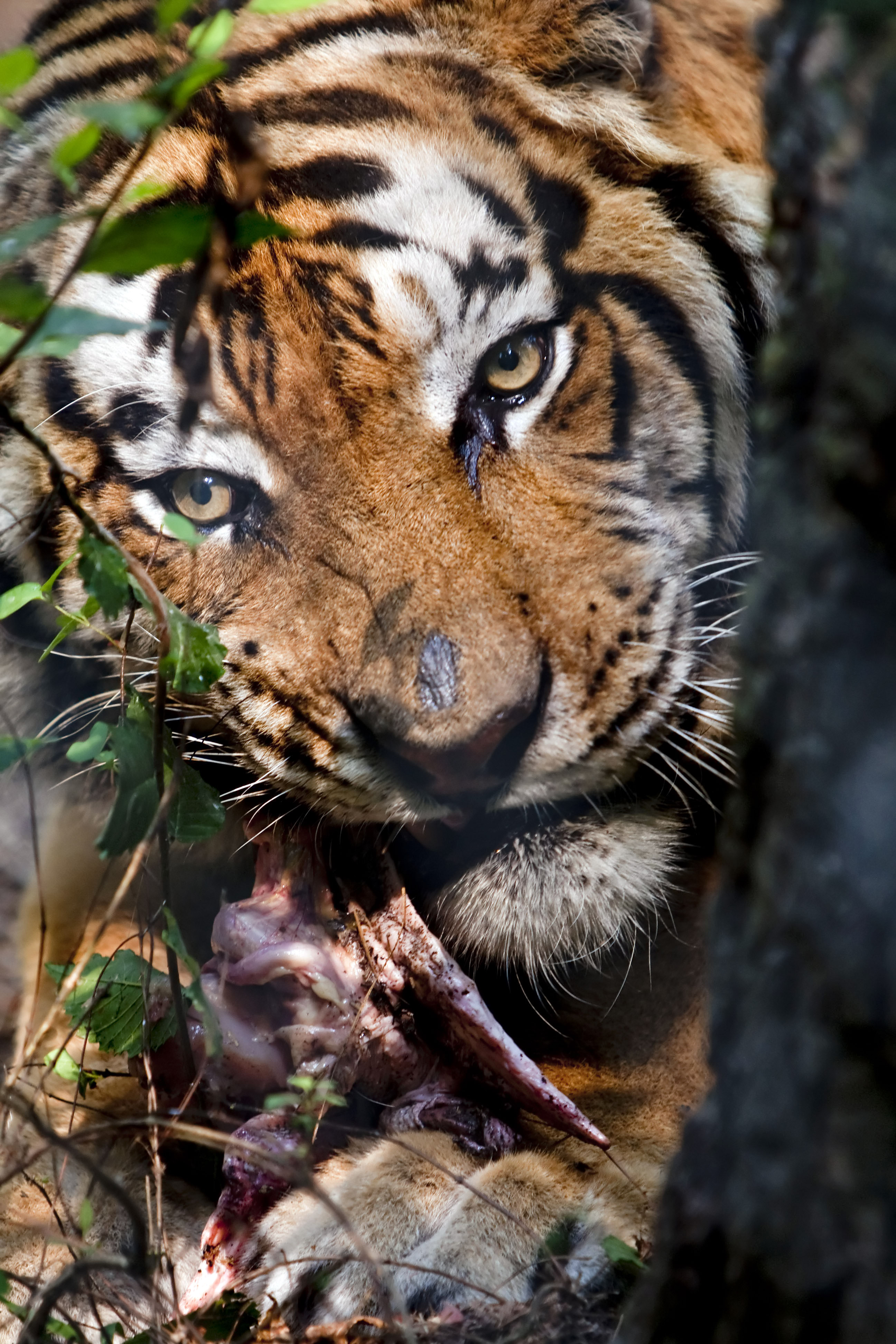 The second leg of the Sociology of Zoos and Sanctuaries research trips took us to North Carolina. These pics are from the Carnivore Preservation Trust in Pittsboro where we spent two hours feeding the animals with the keepers